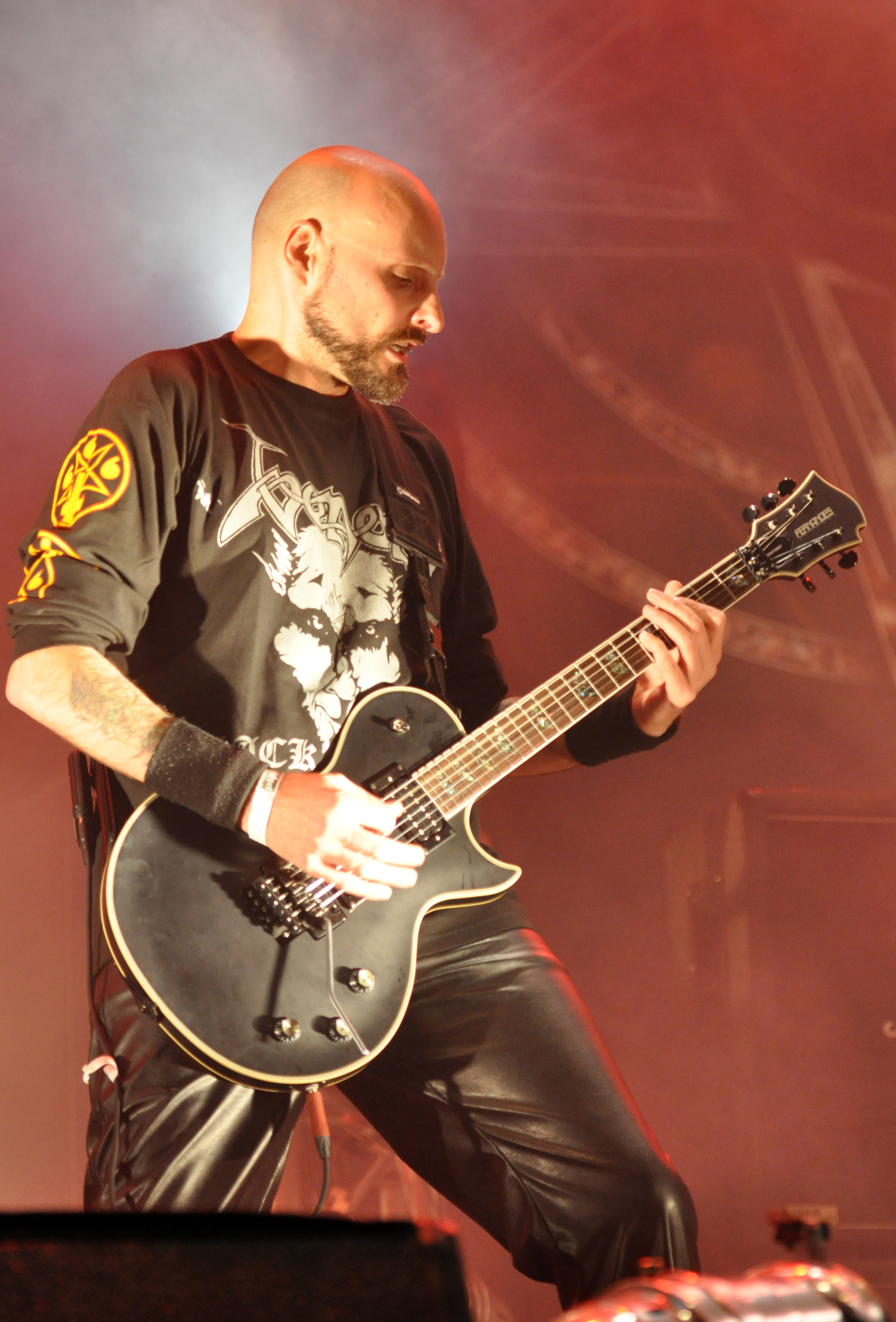 Venom at Party.San Metal Open Air 2013